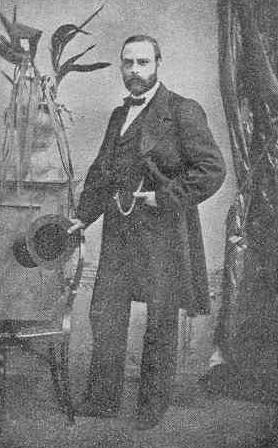 The Finnish professor Jakob August Estlander (1831-1881).